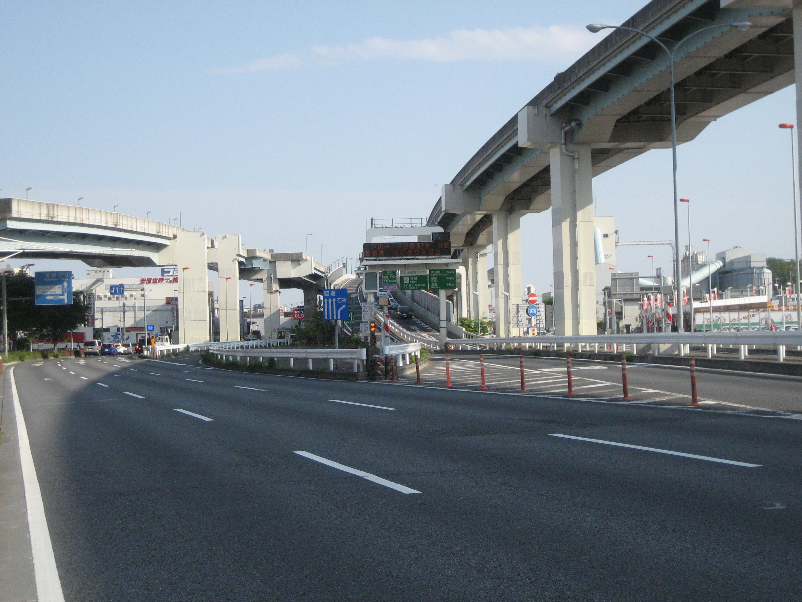 Metropolitan Expressway Yono Interchange